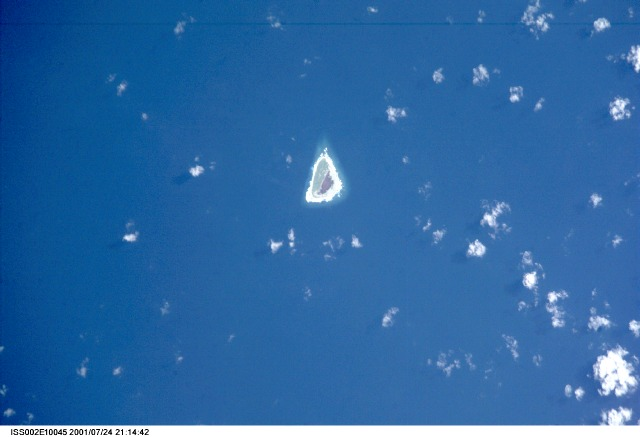 NASA astronaut image of Rawaki Island (Kiribati) in the Pacific Ocean